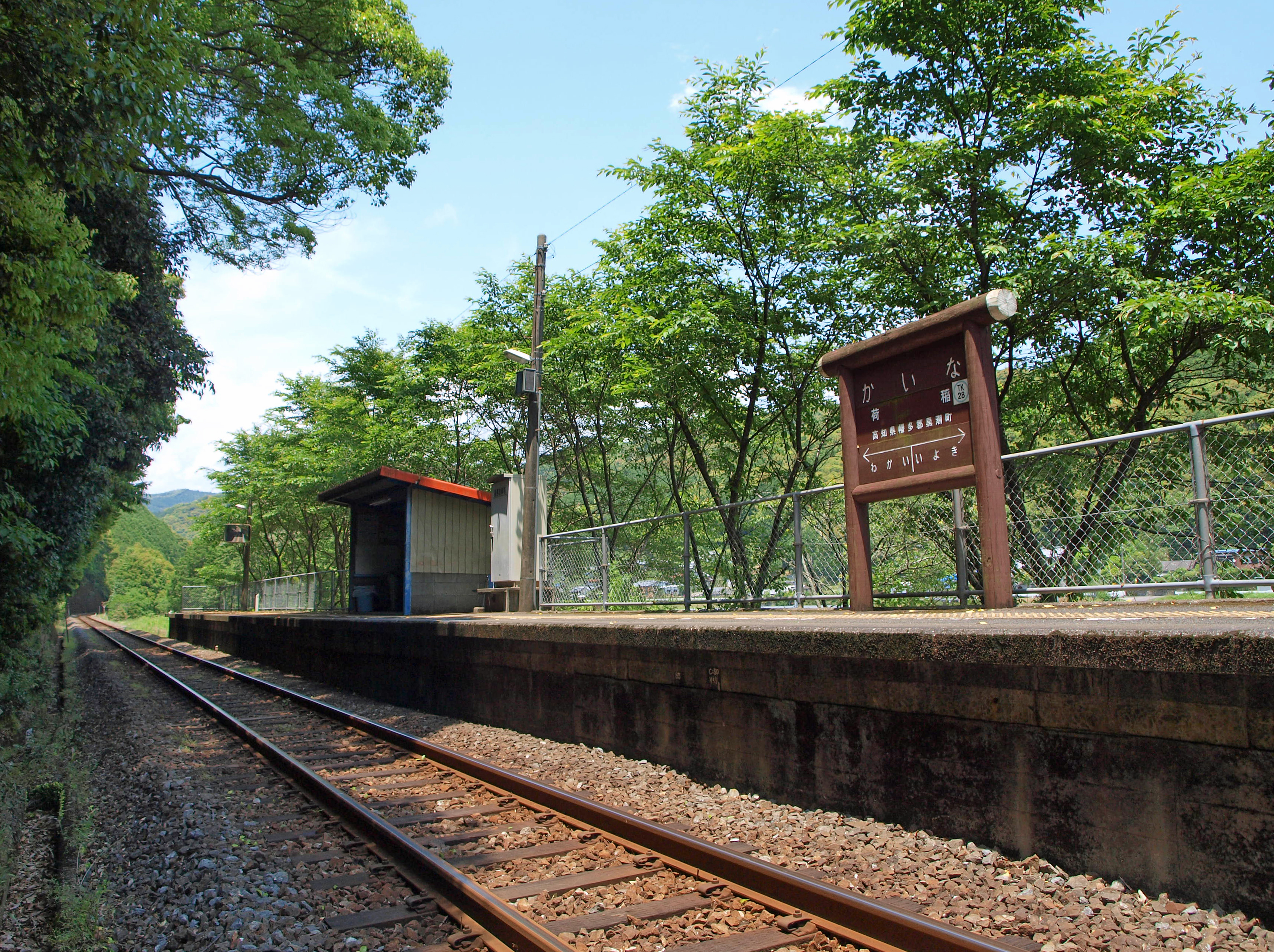 Kaina Station, Nakamura Line, Tosa Kuroshio Railway, Japan